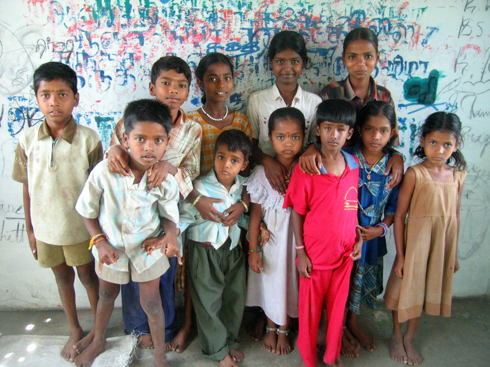 'Bala Vihar' kids, inside their classroom, at a village near Coimbatore